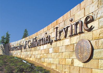 no original description